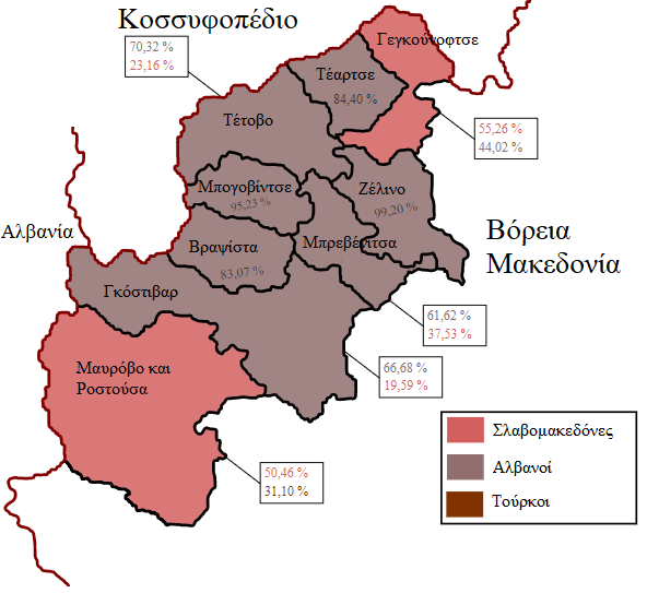 Political map of the majority ethnic groups in the Polog Statistical Region of North Macedonia in Greek language.